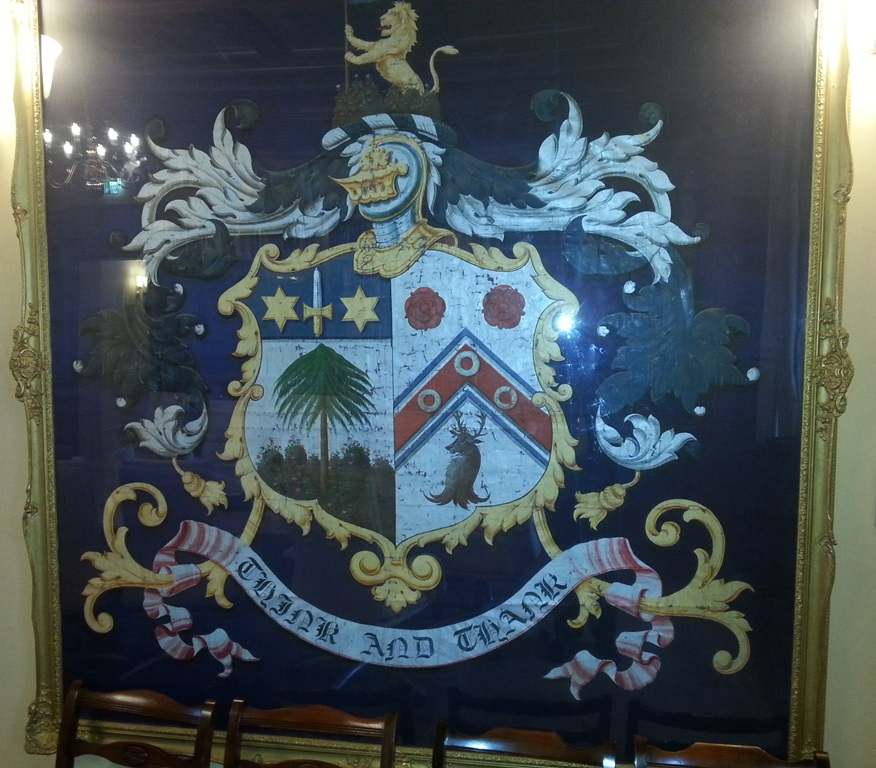 The Banner of Sir Moses Montefiore at the Embassy of Israel in London